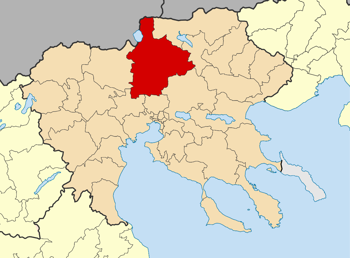 Locator map for Kilkis municipality in Greek region Central Macedonia (2011)